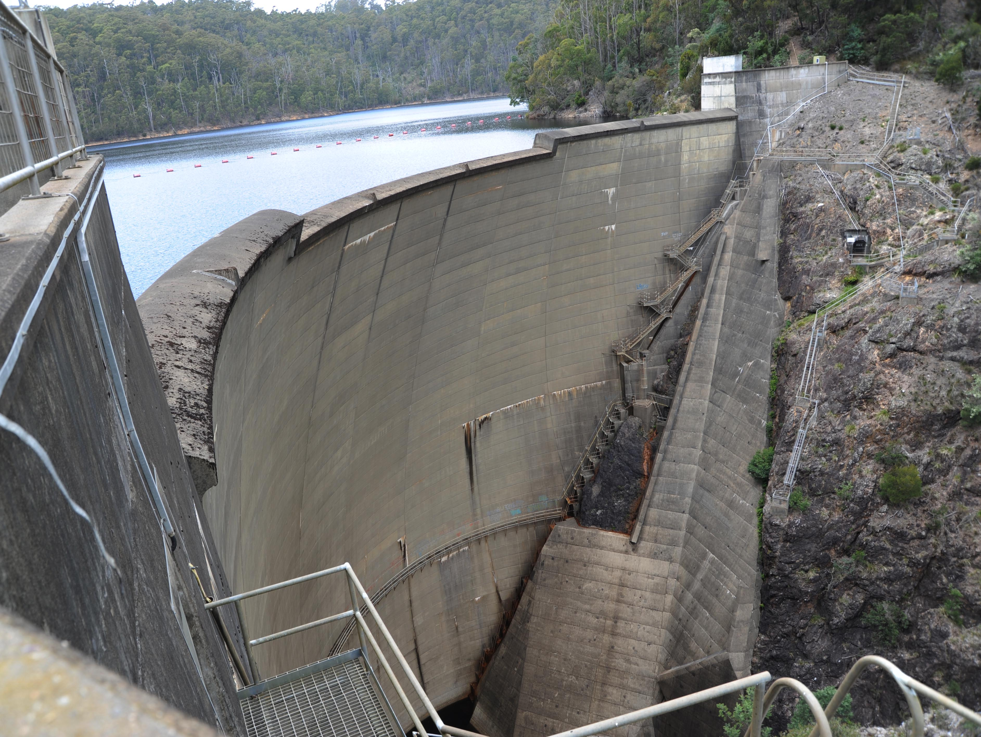 Devil's Gate Dam, Tasmania, Australia